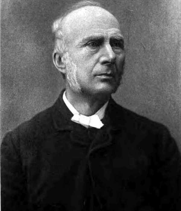 A photograph of Revd. William Tuckwell, the "radical parson" and Christian socialist